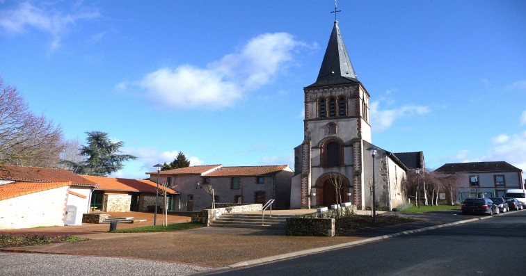 Parish St. Mary of the Sources of Èvre of Nuaillé